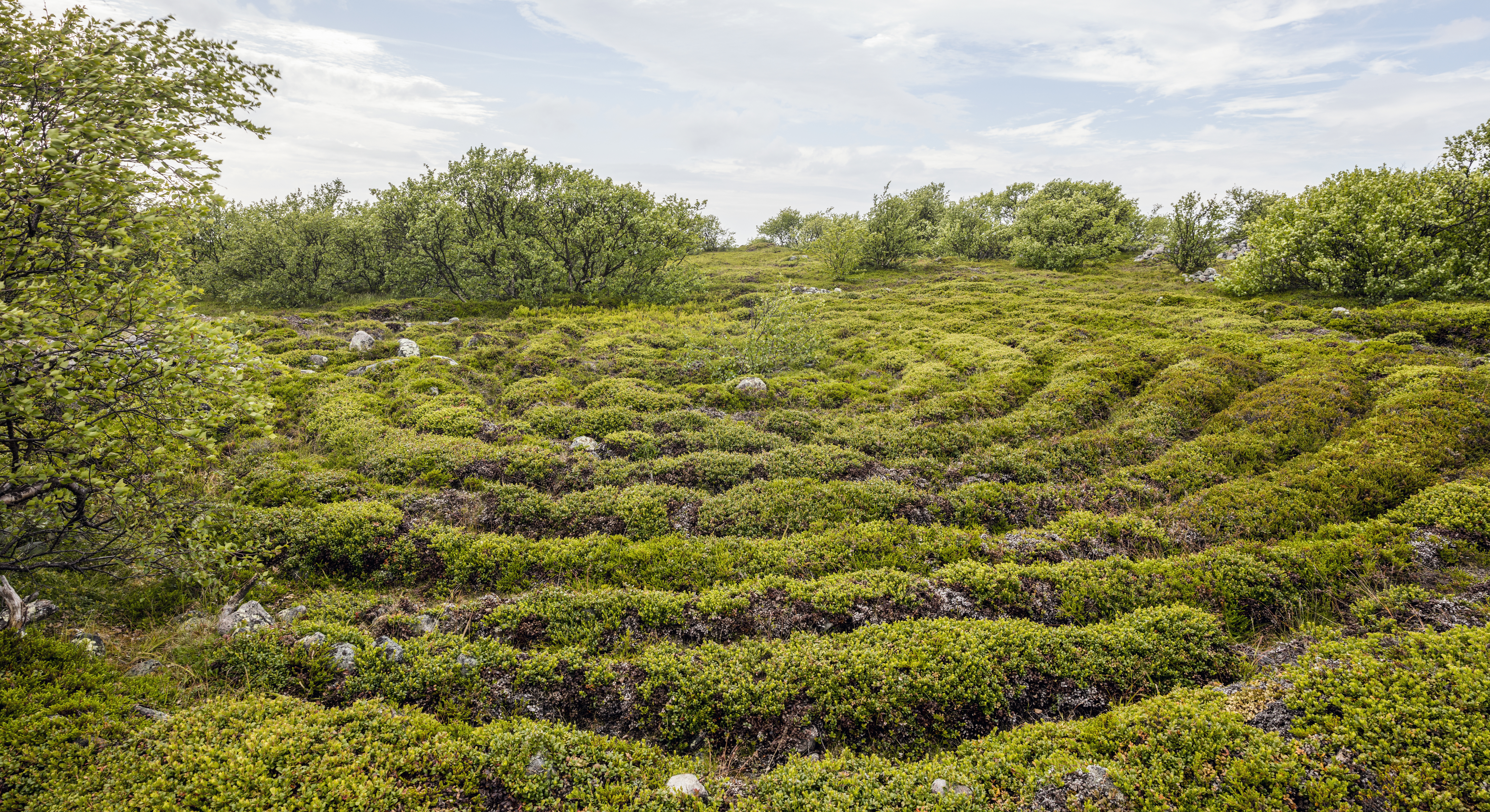 Stone labyrinth, Bolshoi Zayatsky Island, Solovetsky Islands, White Sea, Russia